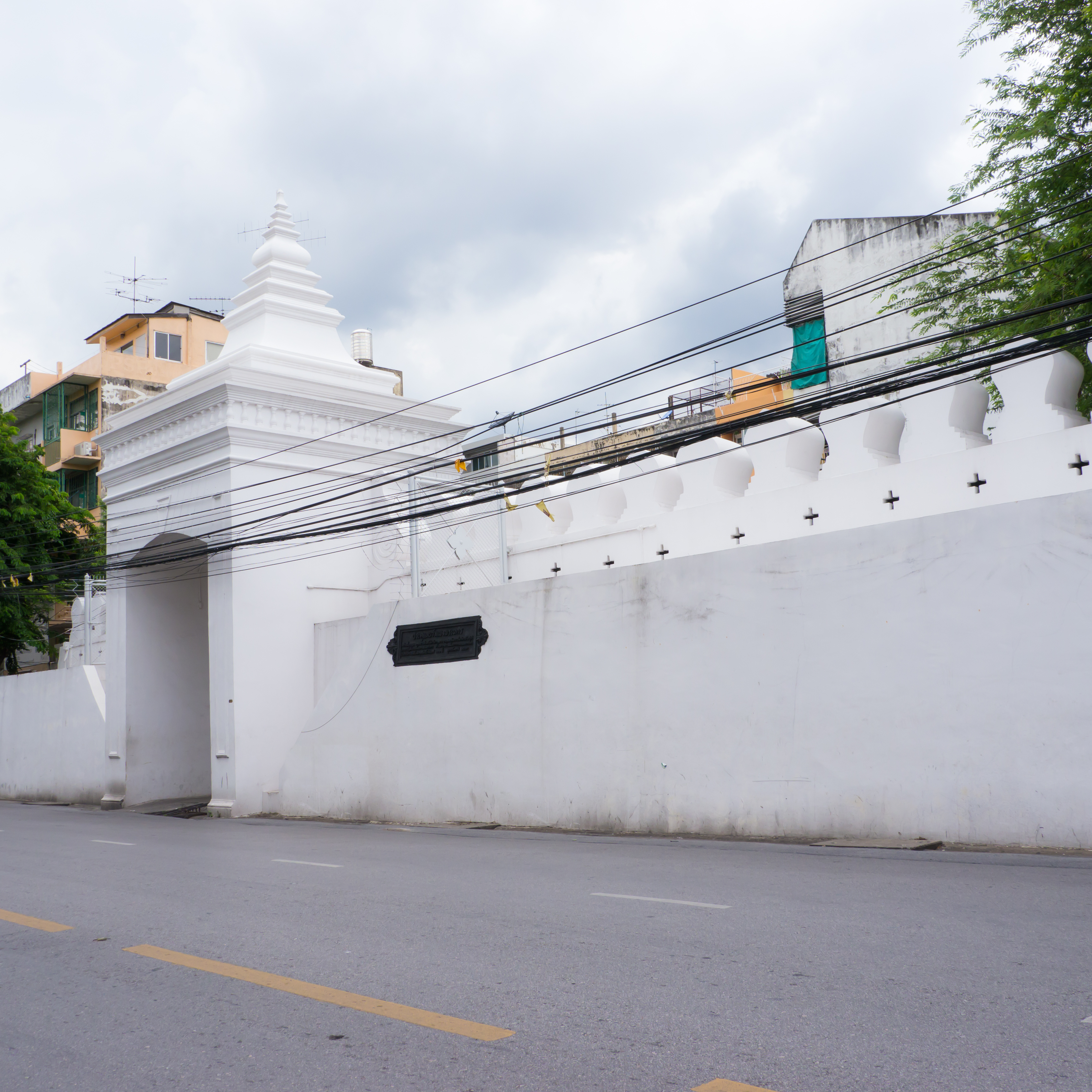 A portion of the old city wall opposite to Wat Bowon Niwet School, Phra Nakhon, Bangkok